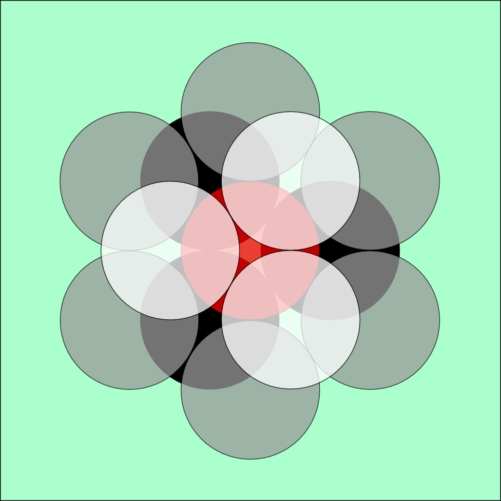 Cuboctahedron: cubic close packing